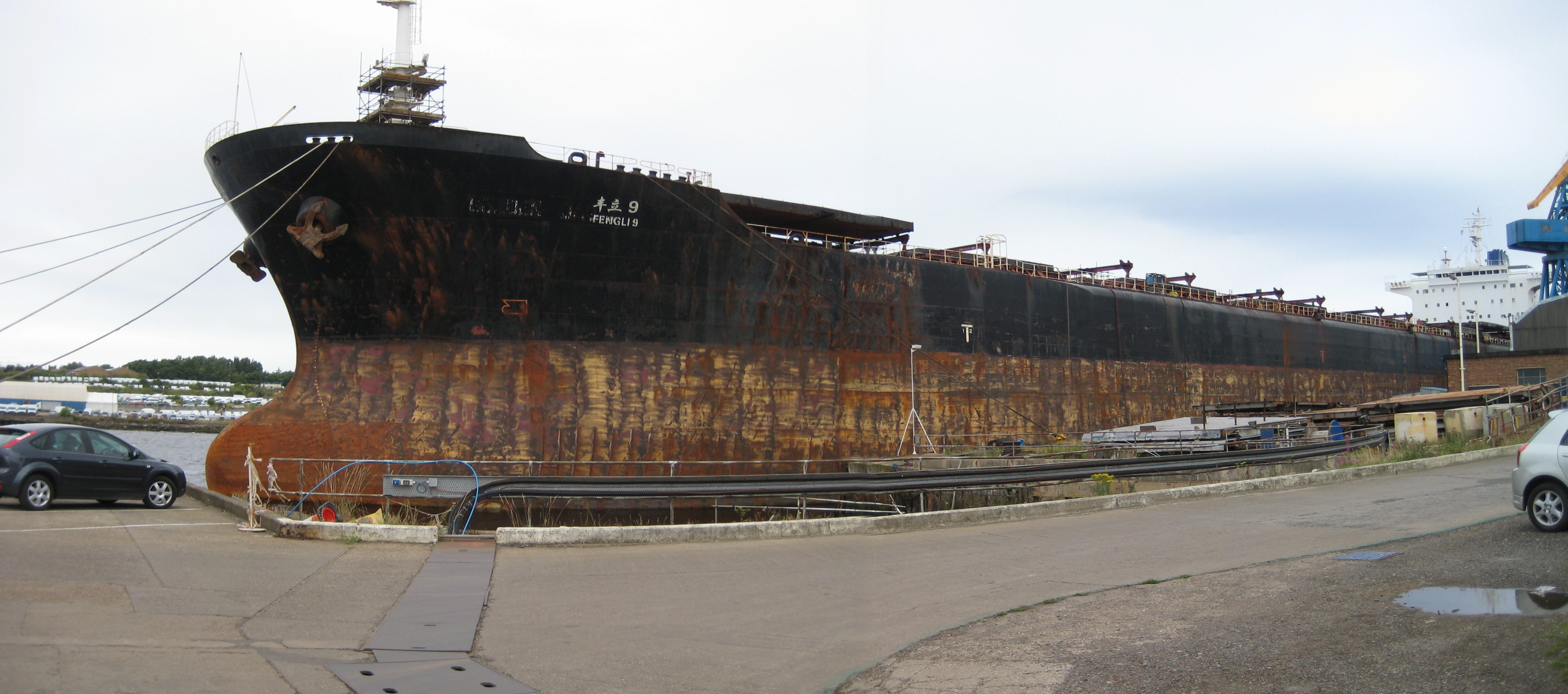 The Bulk Carrier Feng Li 9 undergoing repair at A&P Tyne Ltd, United Kingdom. IMO Number: 9041021 MMSI Number: 372033000 Callsign: 3EQR3 Length: 225 m Beam: 33 m